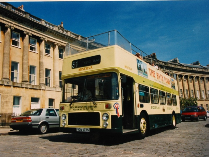 A Guide Friday tour bus in Royal Crescent, Bath, Somerset, England. It is Badgerline's 8606 Minerva (VDV 137S), a Bristol VRT with convertible open top Eastern Coach Works body.